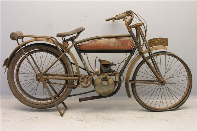 Helyett 175 cc two stroke motorcycles from 1926